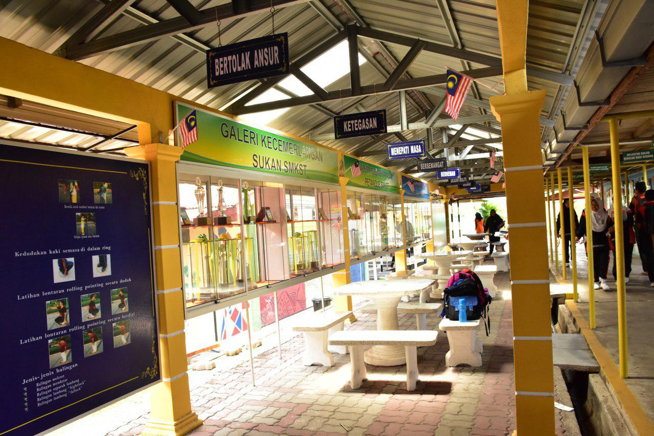 ruang belajar